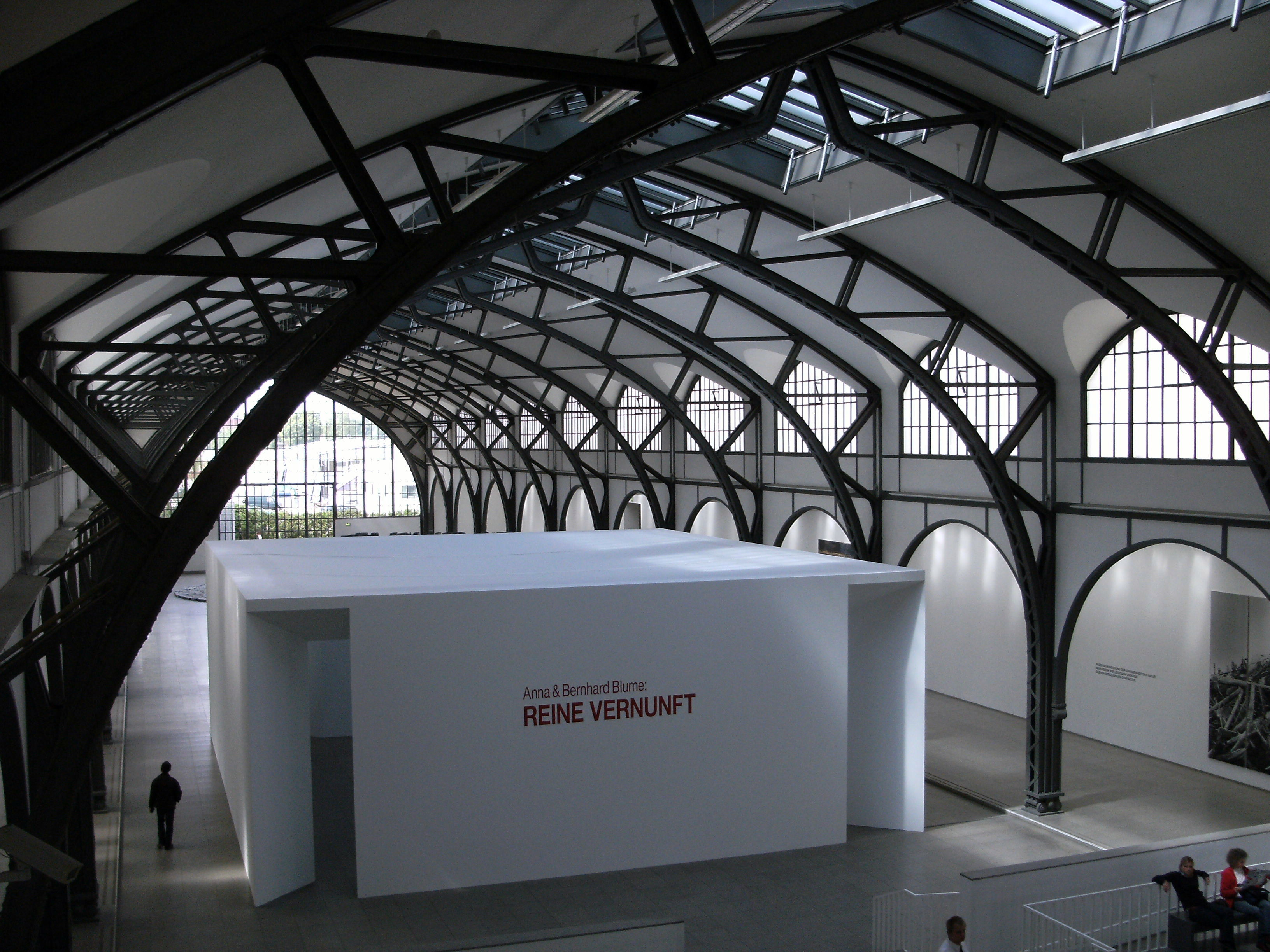 Berlin in june 2008.